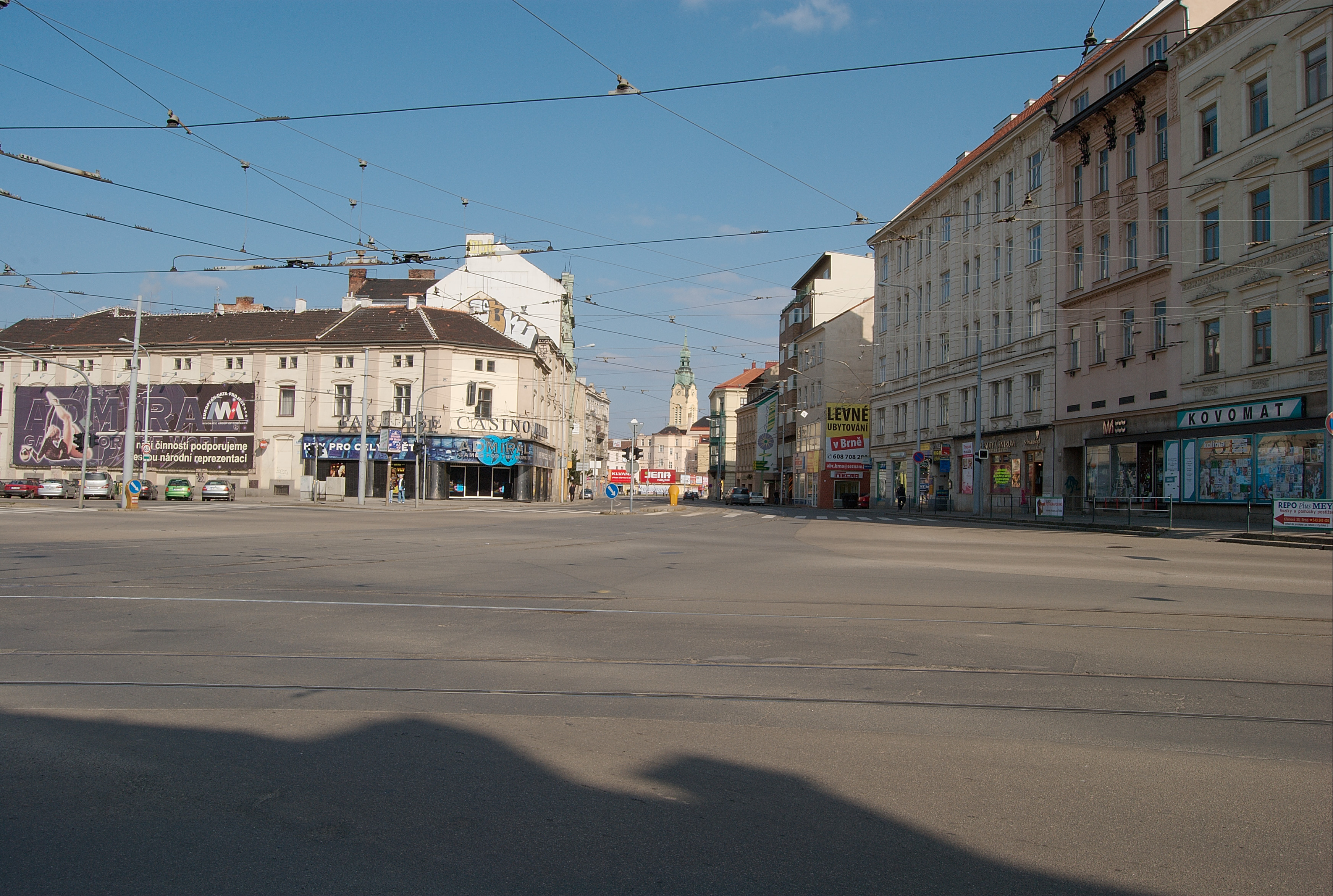 Brno-Trnitá - Křenová street from west